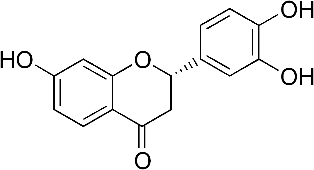 chemical structure of butin